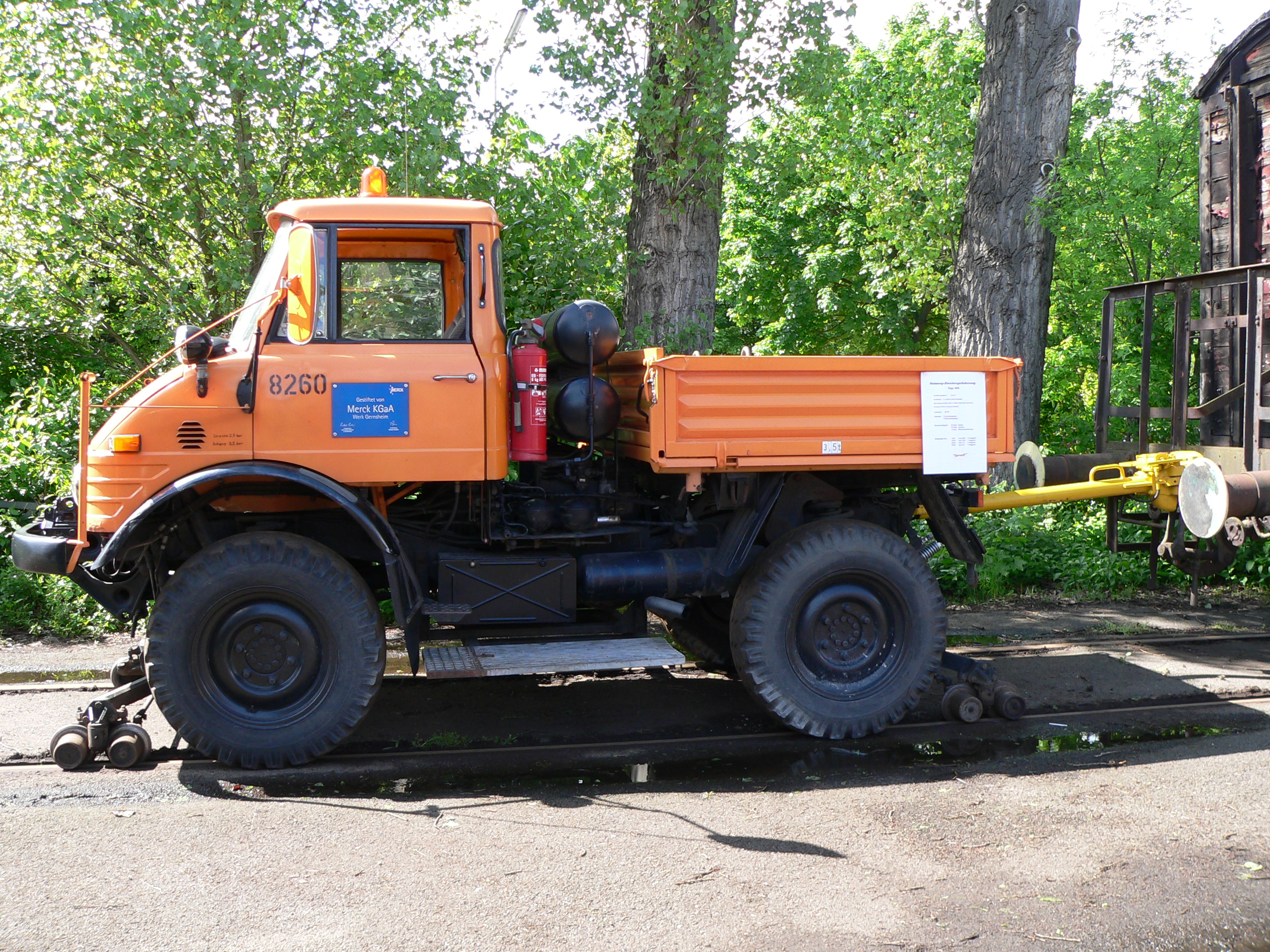 Shunting vehicle